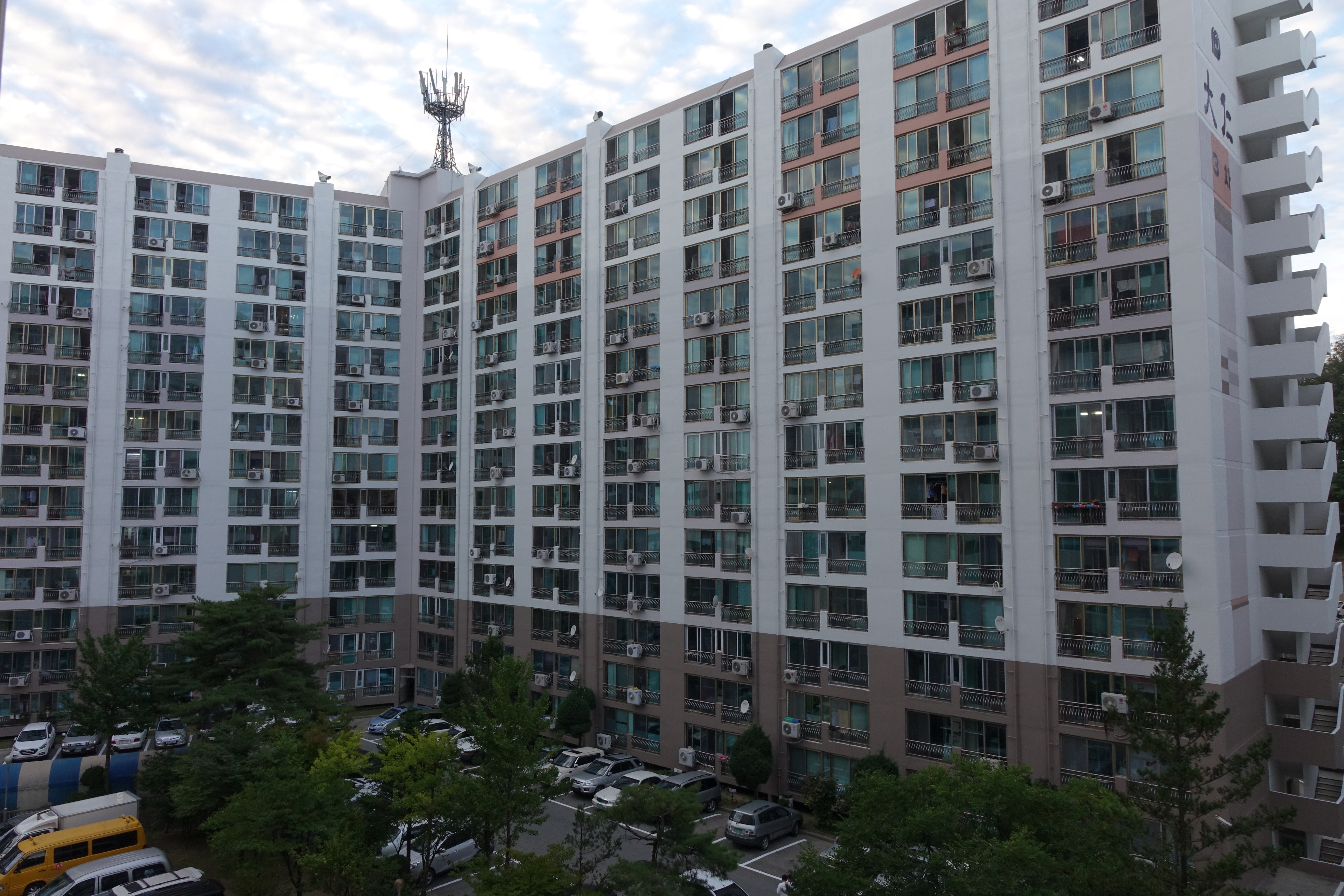 본 저작물을 'CC0 1.0 보편적 퍼블릭 도메인 기증' 저작권으로 배포합니다. 사진에 대해 궁금하신 점이나 원본 파일(ARW)을 원하시는 분은 여기로 연락주세요. 감사합니다. 2015년 10월 4일. 최광모.